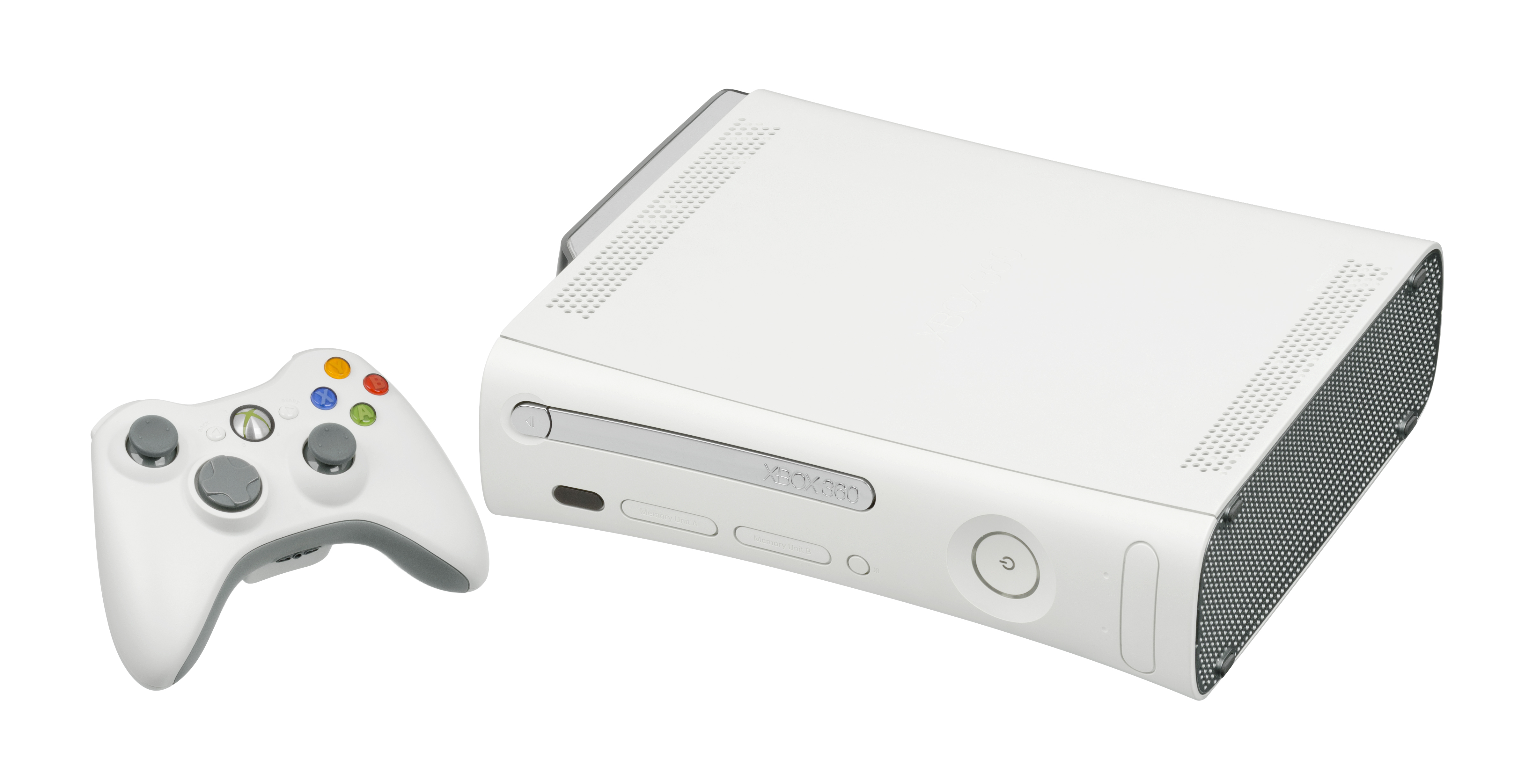 The Xbox 360 Pro/Premium video game console, shown with wireless controller. A seventh generation console made by Microsoft and released in 2005, this is the Pro/Premium model that retailed for $399 at launch and included a 20GB hard drive, a wireless controller and a silver DVD drive bezel.